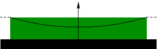 Separation of two solid plates enclosing a thin film of material: the pressure is lower in the center. More precisely, if the material response to deformation is linear, the pressure profile is parabolic